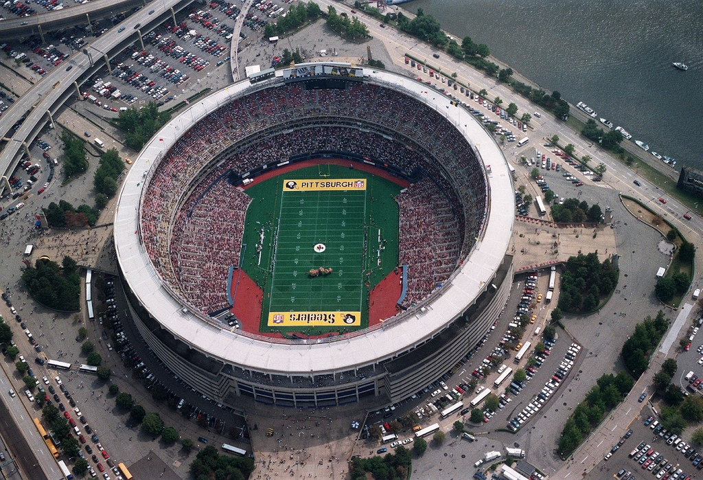 Pittsburgh Stadium, in 1996, durning the game againist the RAVENS. (PHOTO/PAUL M. WALSH)